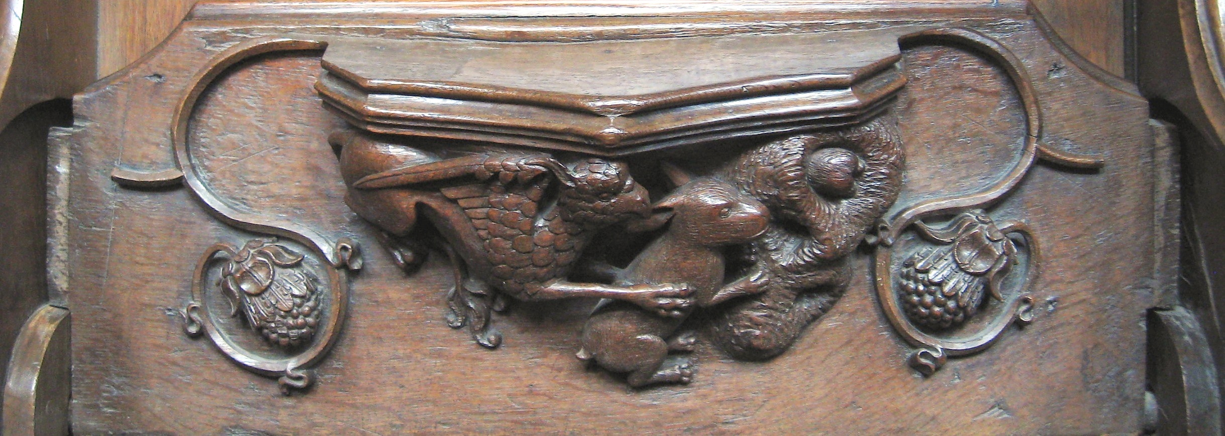 Misericord, Ripon Cathedral, alleged inspiration for Dodgson's (Carroll's) 'Alice' griffin & rabbit-hole